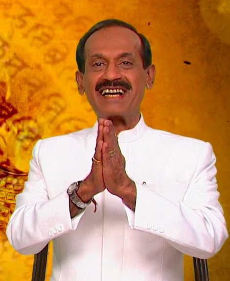 Dr. Pankaj Naram in "Namaste" pose, right before shooting an episode of TV series "Ancient Healing"